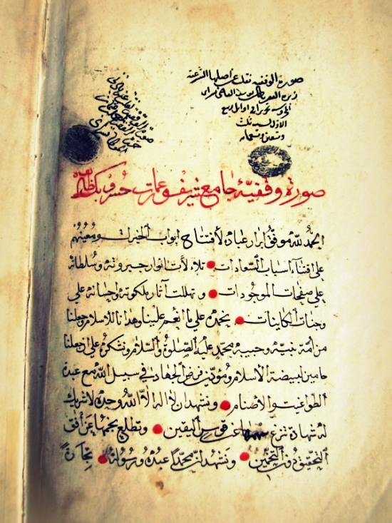 Vakufnama